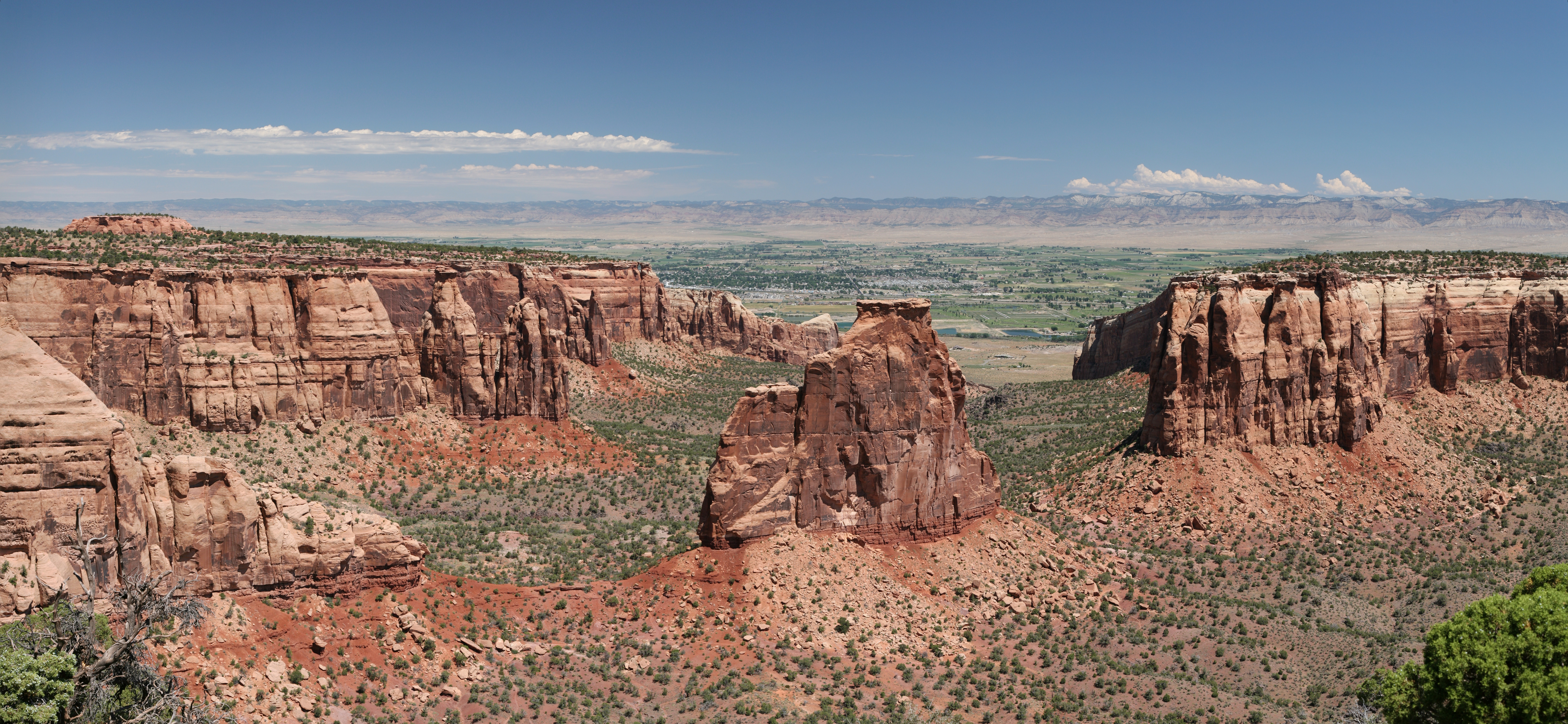 Independence monument in Colorado National Monument with Fruita, Colorado in the background